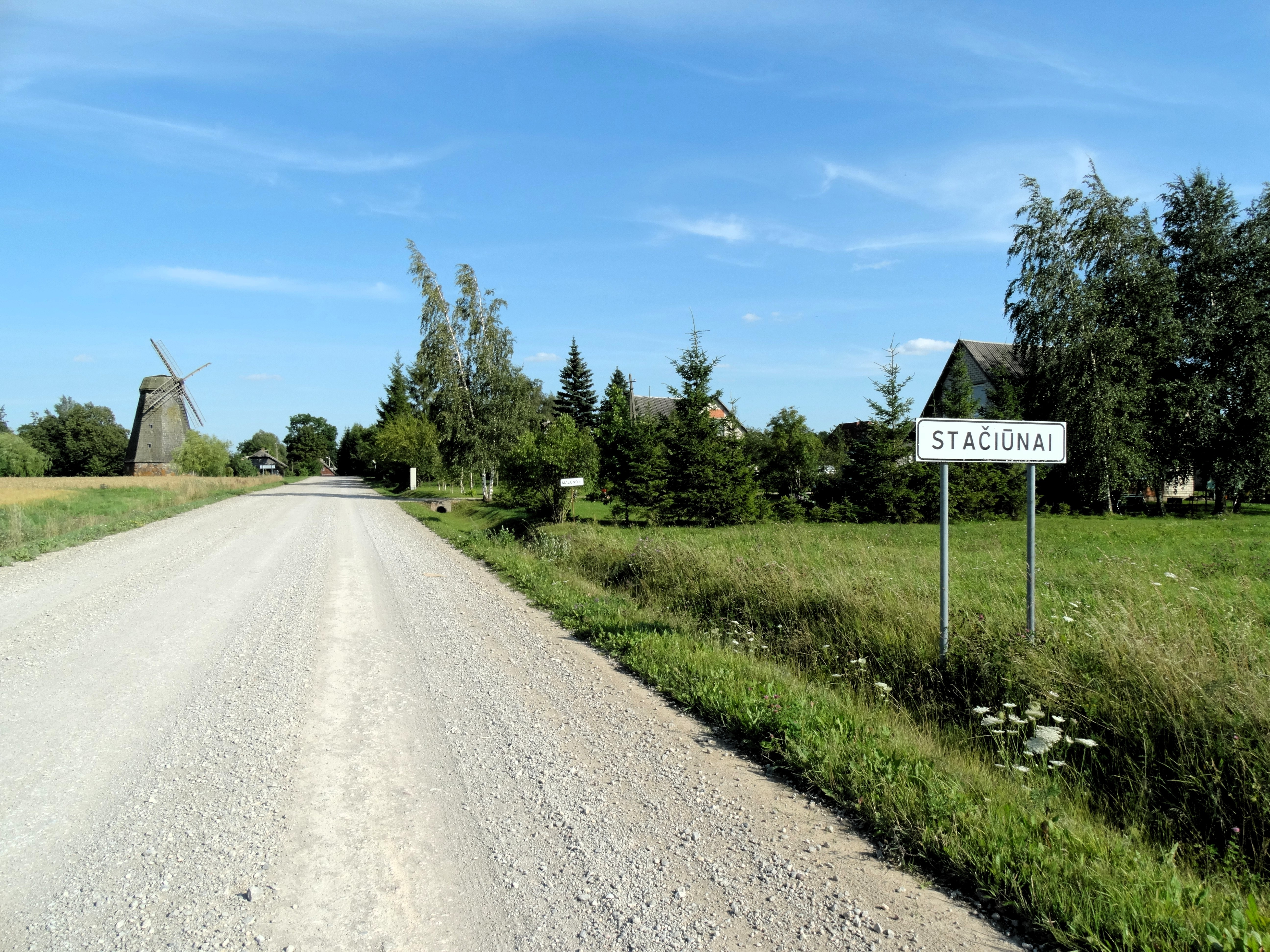 Windmill, Stačiūnai, Pakruojis District, Lithuania